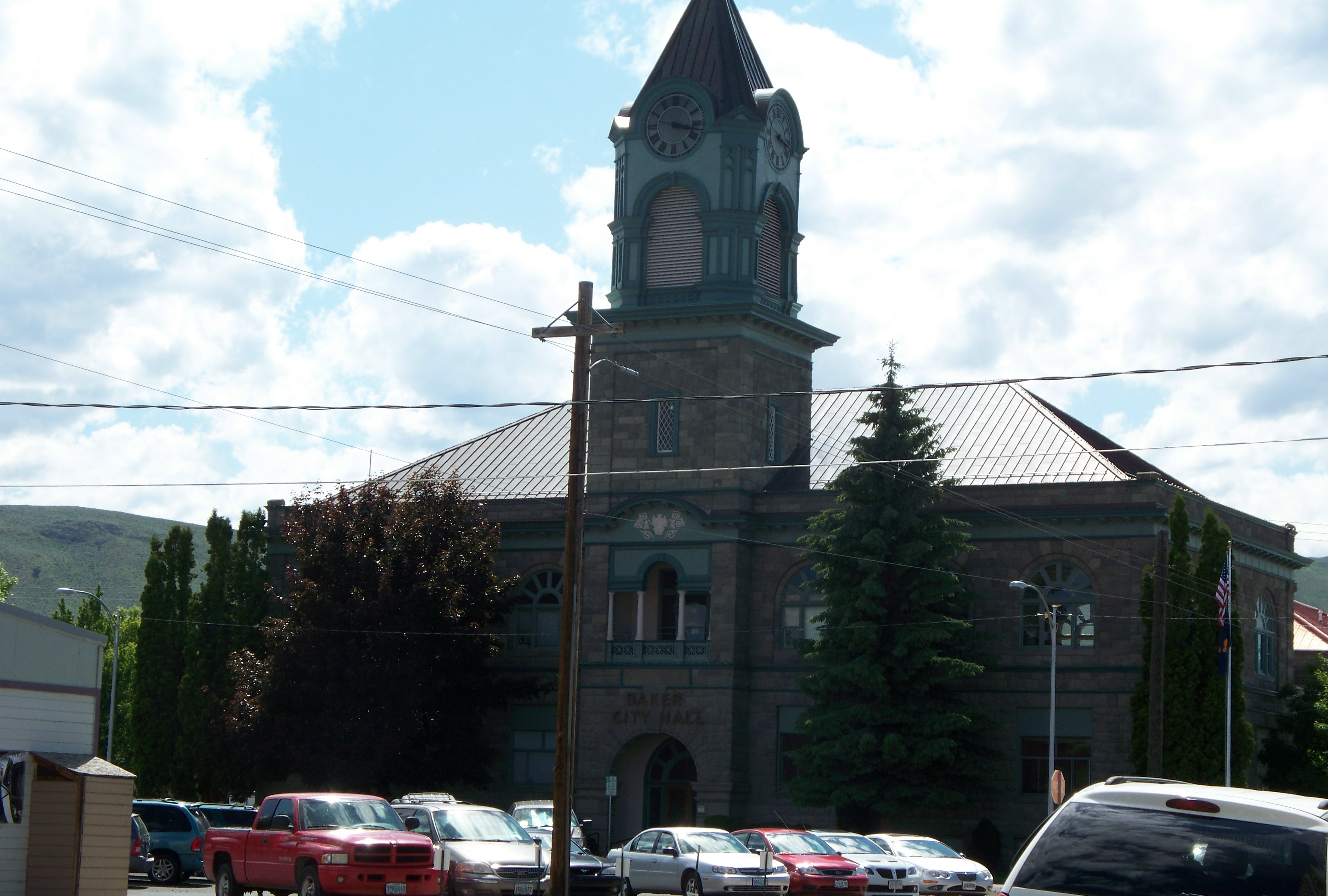 Baker City Hall, Baker City, Oregon